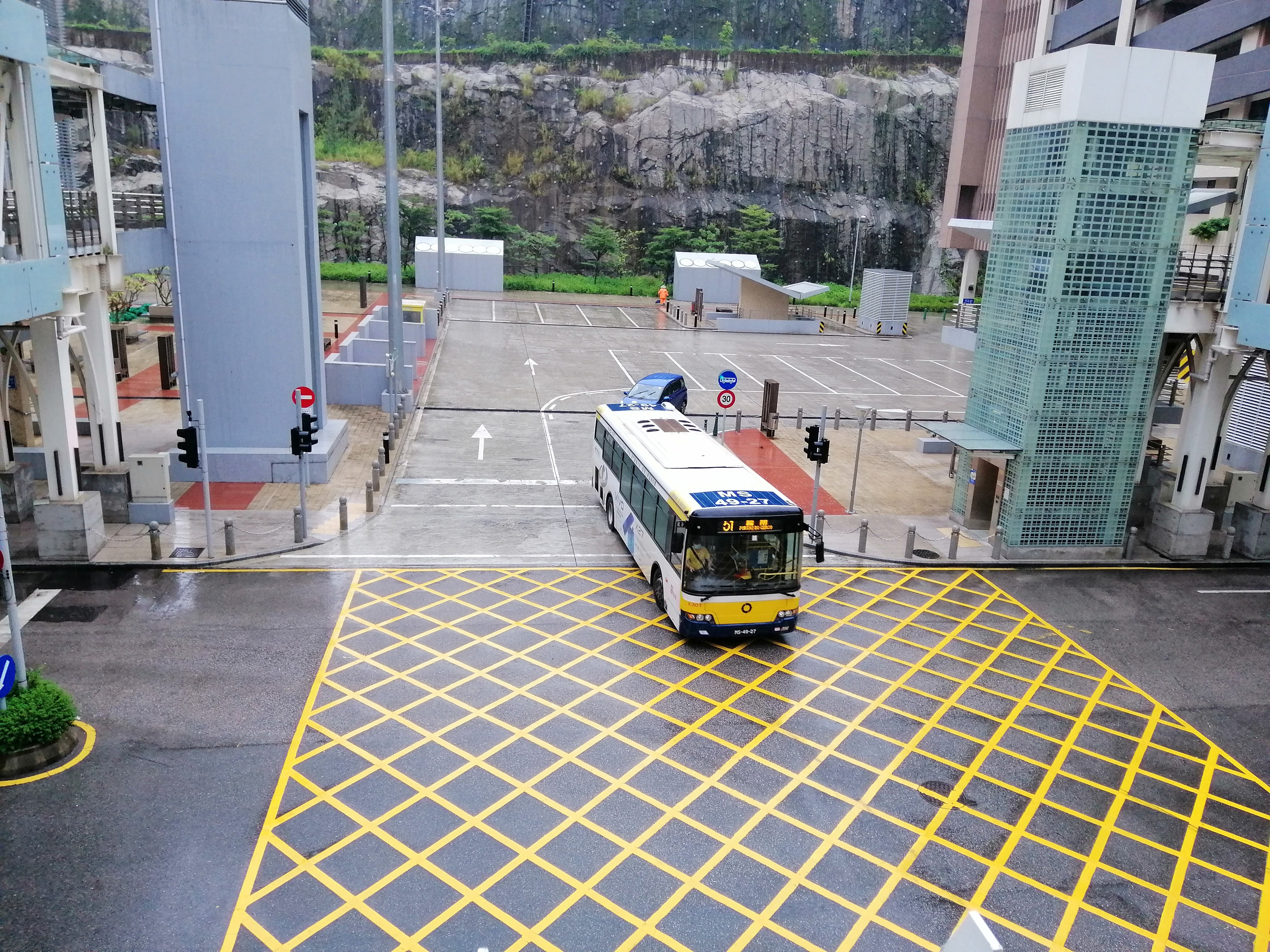 macau bus